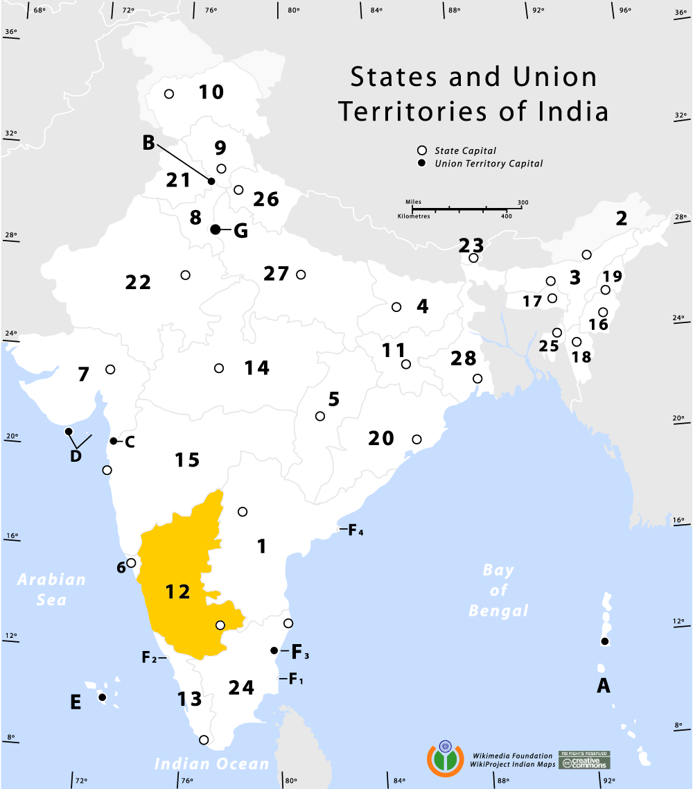 States and Union territories of India with the state of Karnataka highlighted. Legend States: Andhra Pradesh Arunachal Pradesh Assam Bihar Chhattisgarh Goa Gujarat Haryana Himachal Pradesh Jammu and Kashmir Jharkhand Karnataka Kerala Madhya Pradesh Maharashtra Manipur Meghalaya Mizoram Nagaland Orissa Punjab Rajasthan Sikkim Tamil Nadu Tripura Uttarakhand Uttar Pradesh West Bengal Union Territories: A Andaman and Nicobar Islands B Chandigarh C Dadra and Nagar Haveli D Daman and Diu E Lakshadweep F Puducherry National Capital Territory: G Delhi